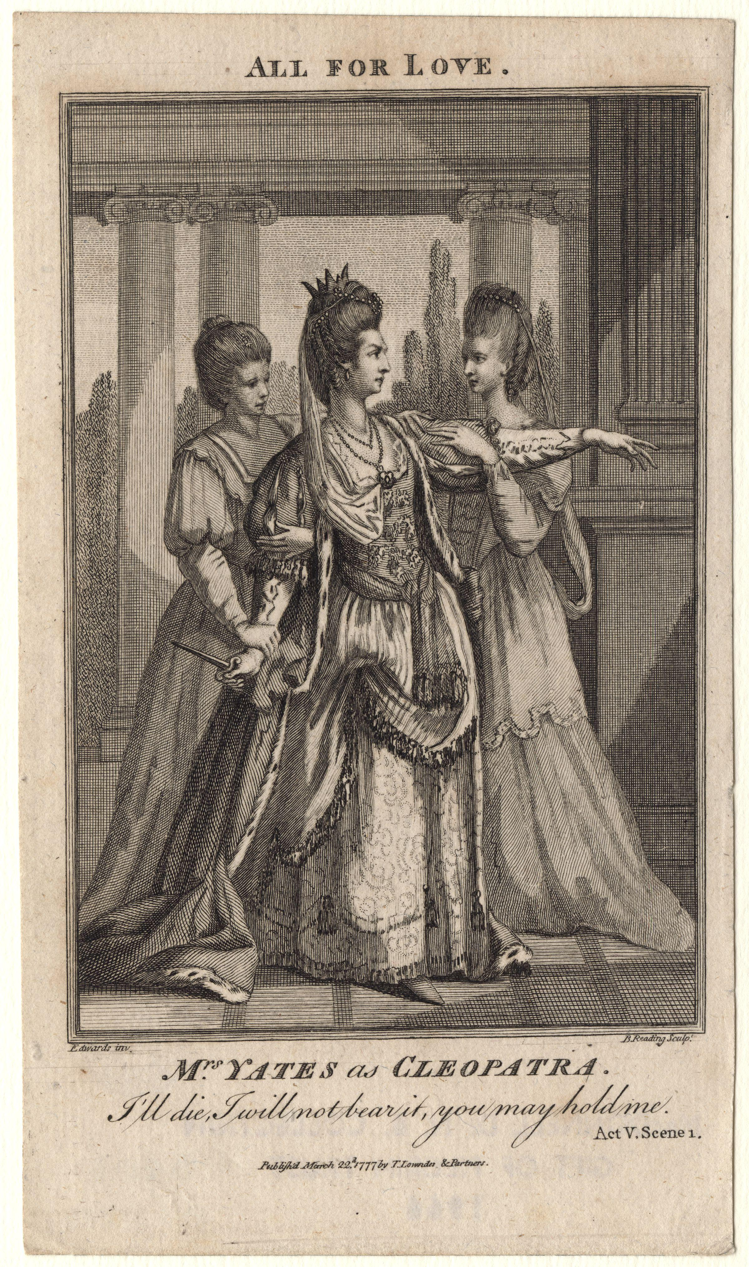 Mary Ann Yates as Cleopatra in Dryden's 'All for Love, by Edward Edwards (died 1806), published 1777. All images in this batch have been confirmed as author died before 1939 according to the official death date listed by the NPG.